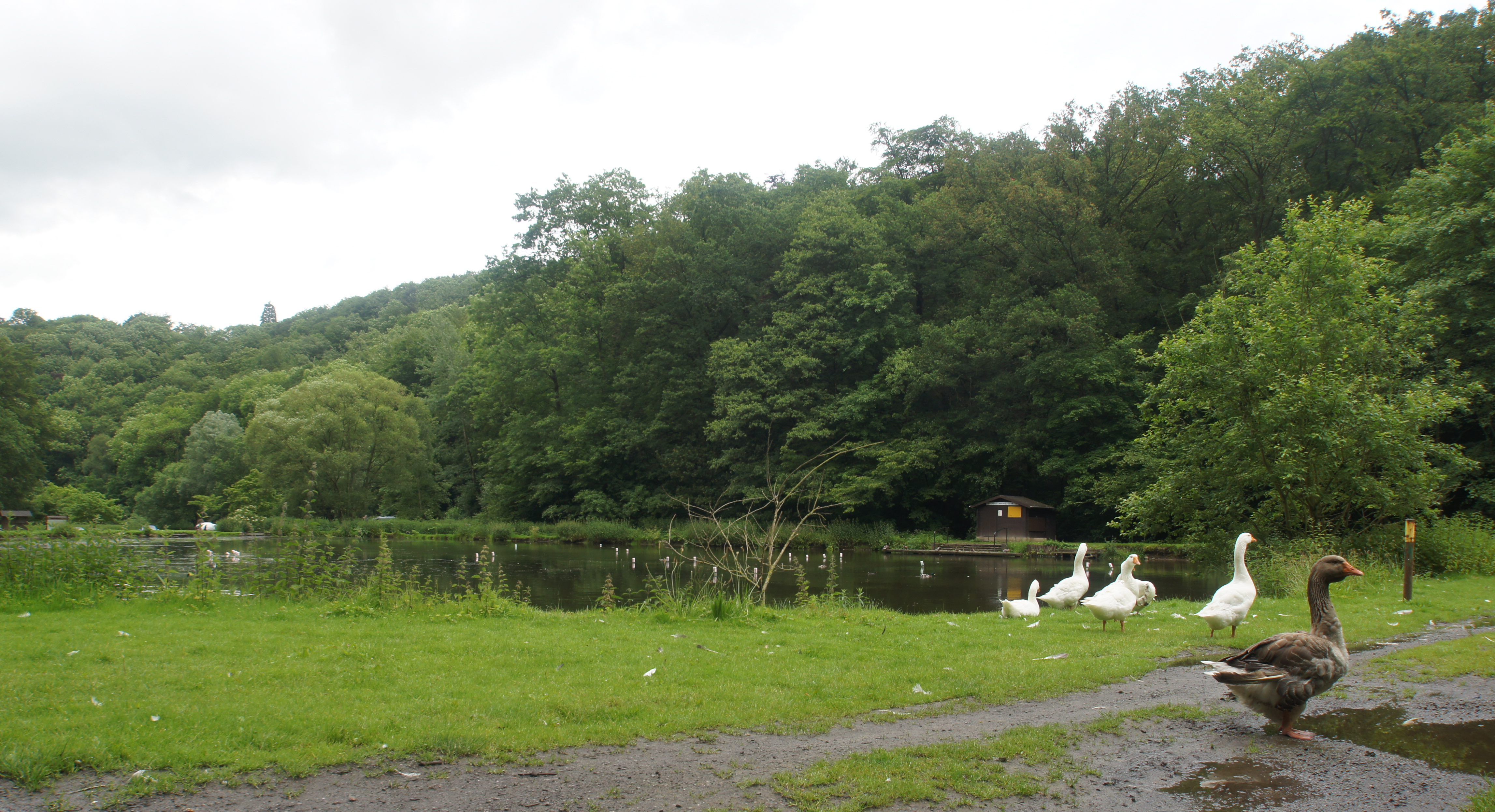 Visé (Argenteau), Belgium: Pond on the Julienne in the Julienne Park